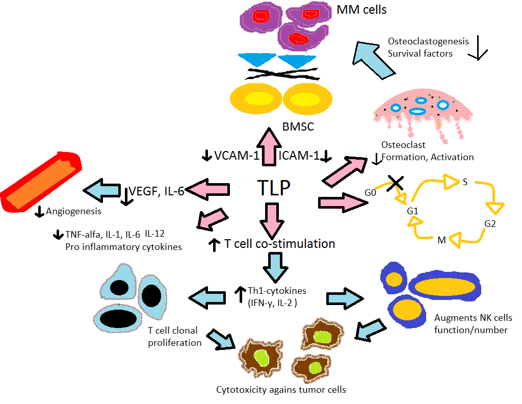 Third update of the same picture